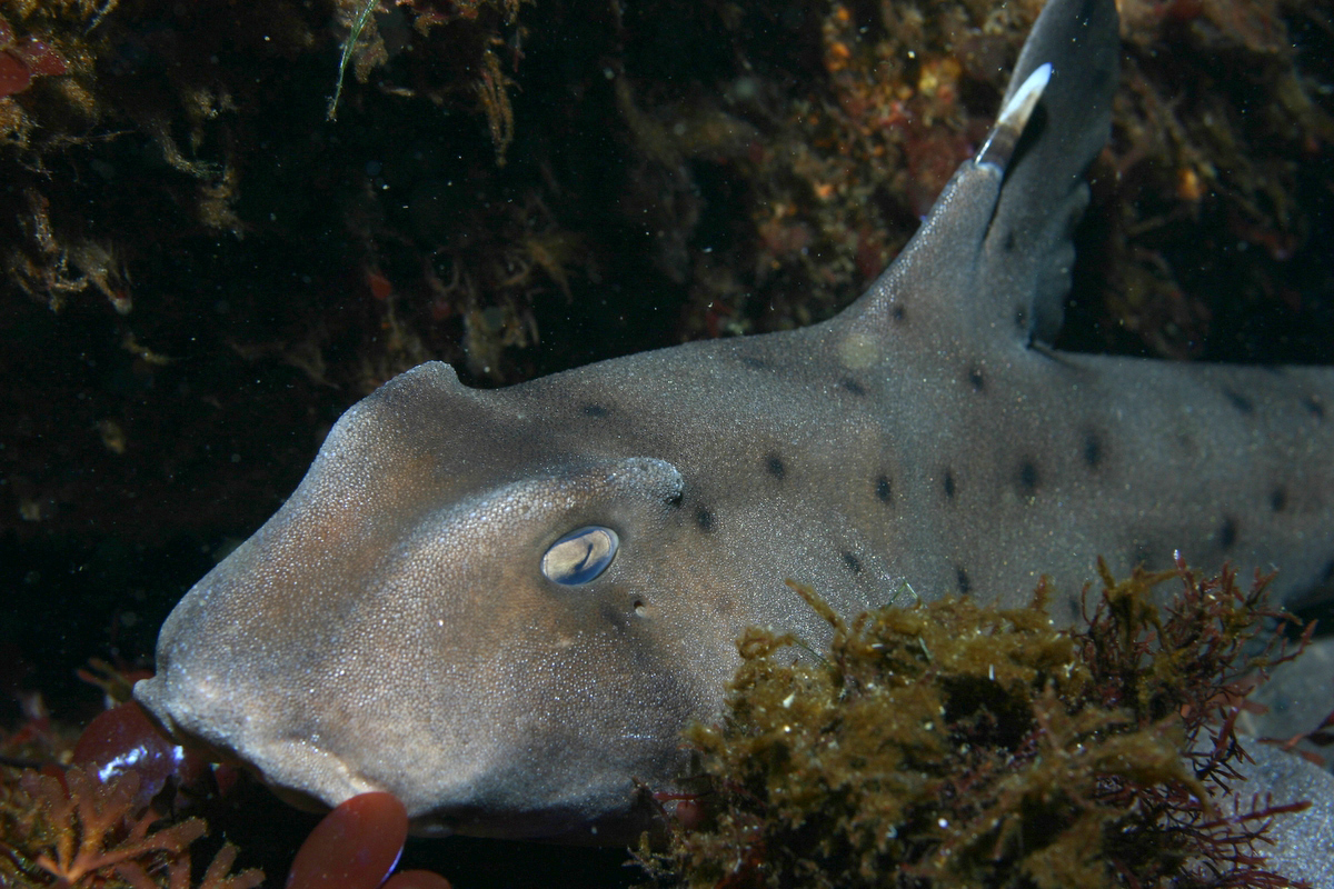 Horn shark (Heterodontus francisci) at the Monterey Bay Aquarium.